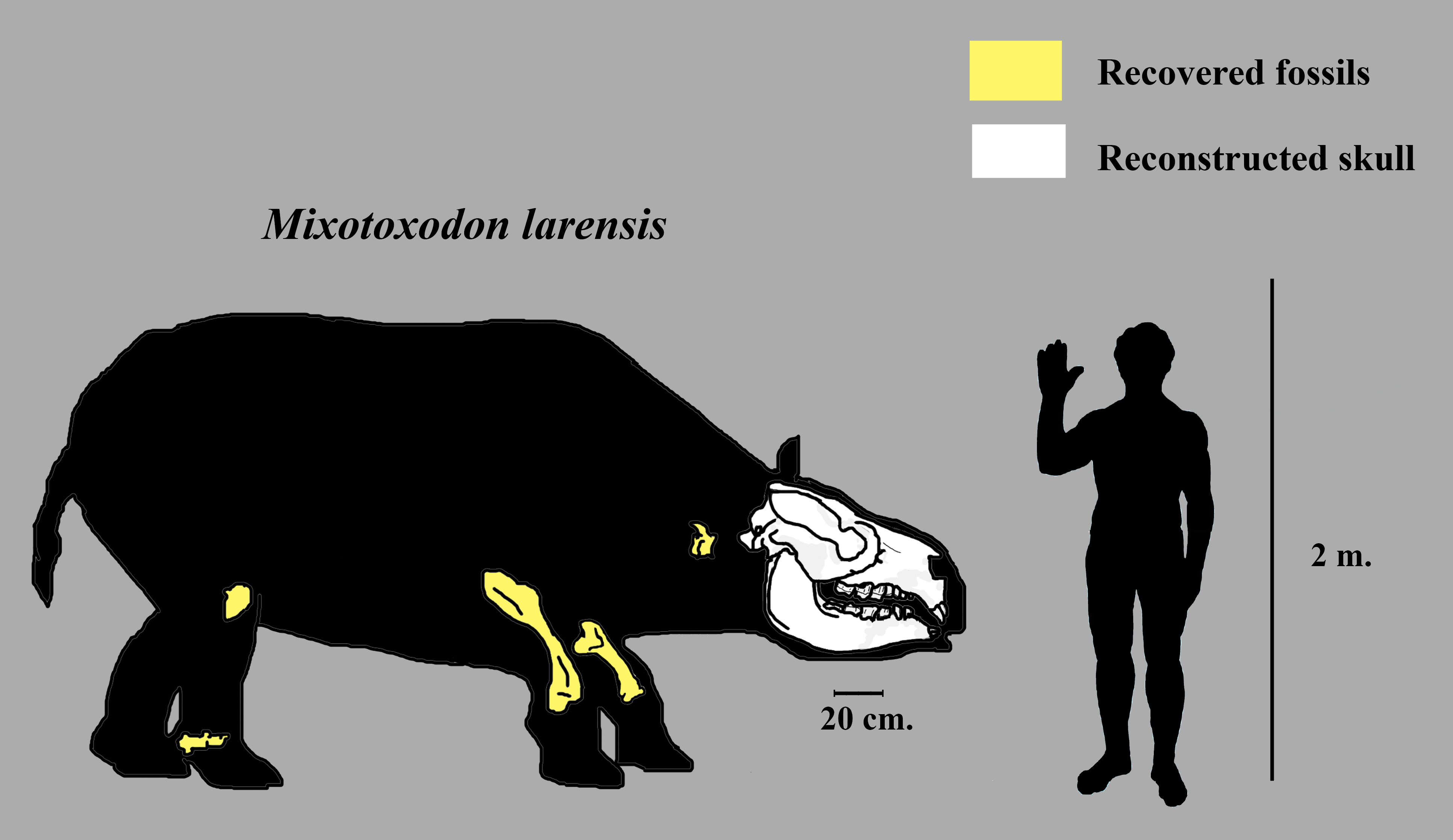 Recreation of the skull and the postcranial fossils assigned to Mixotoxodon, in scale with a human.